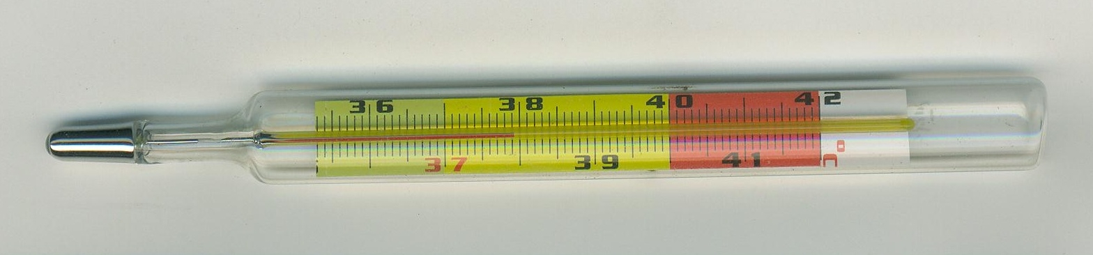 Rotation of picture from Commons